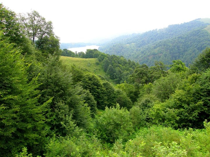 View of Göygöl National Park 3